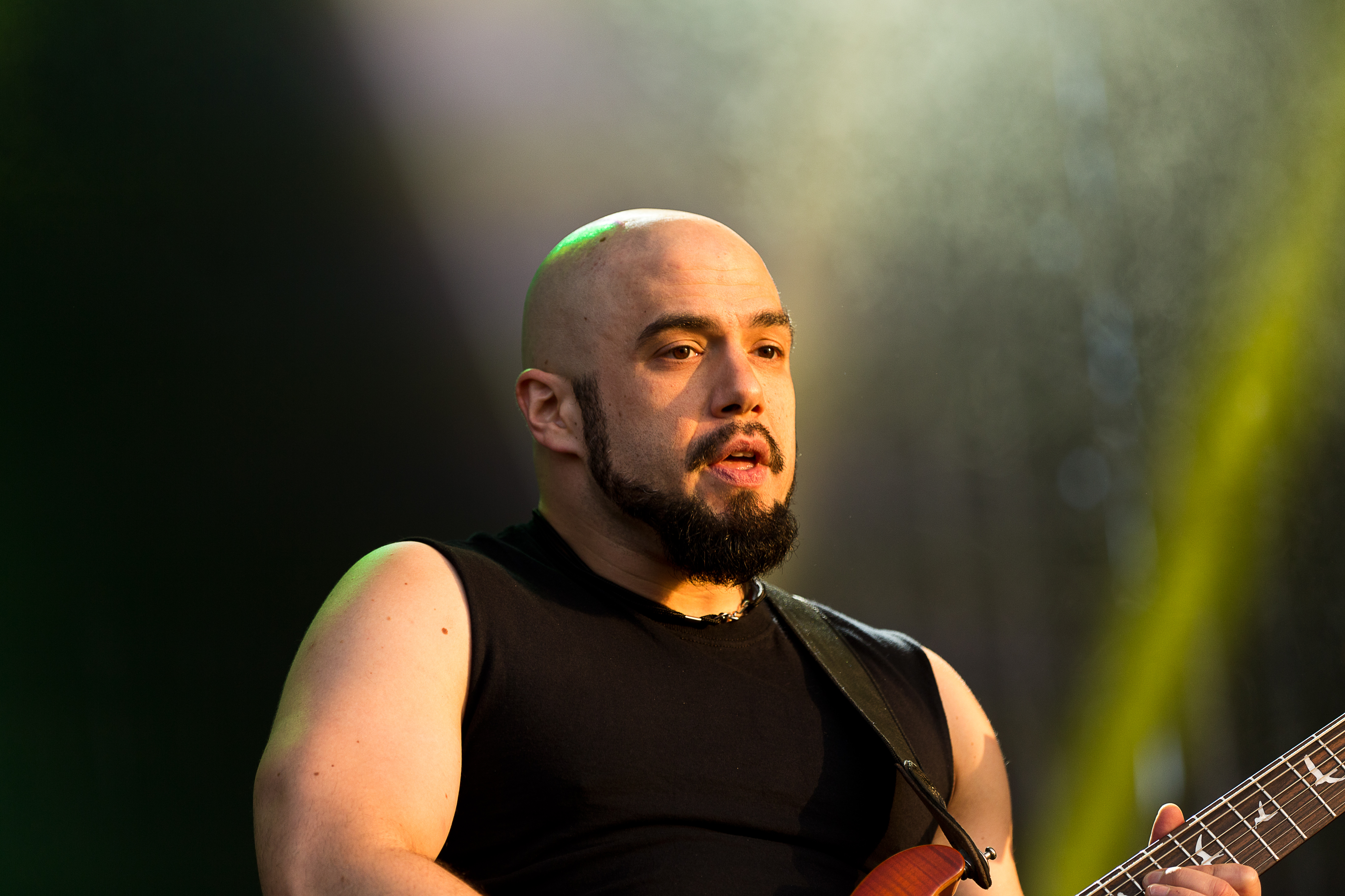 The American heavy metal band Soulfly at the Rockharz Open Air 2015 in Ballenstedt/Germany.